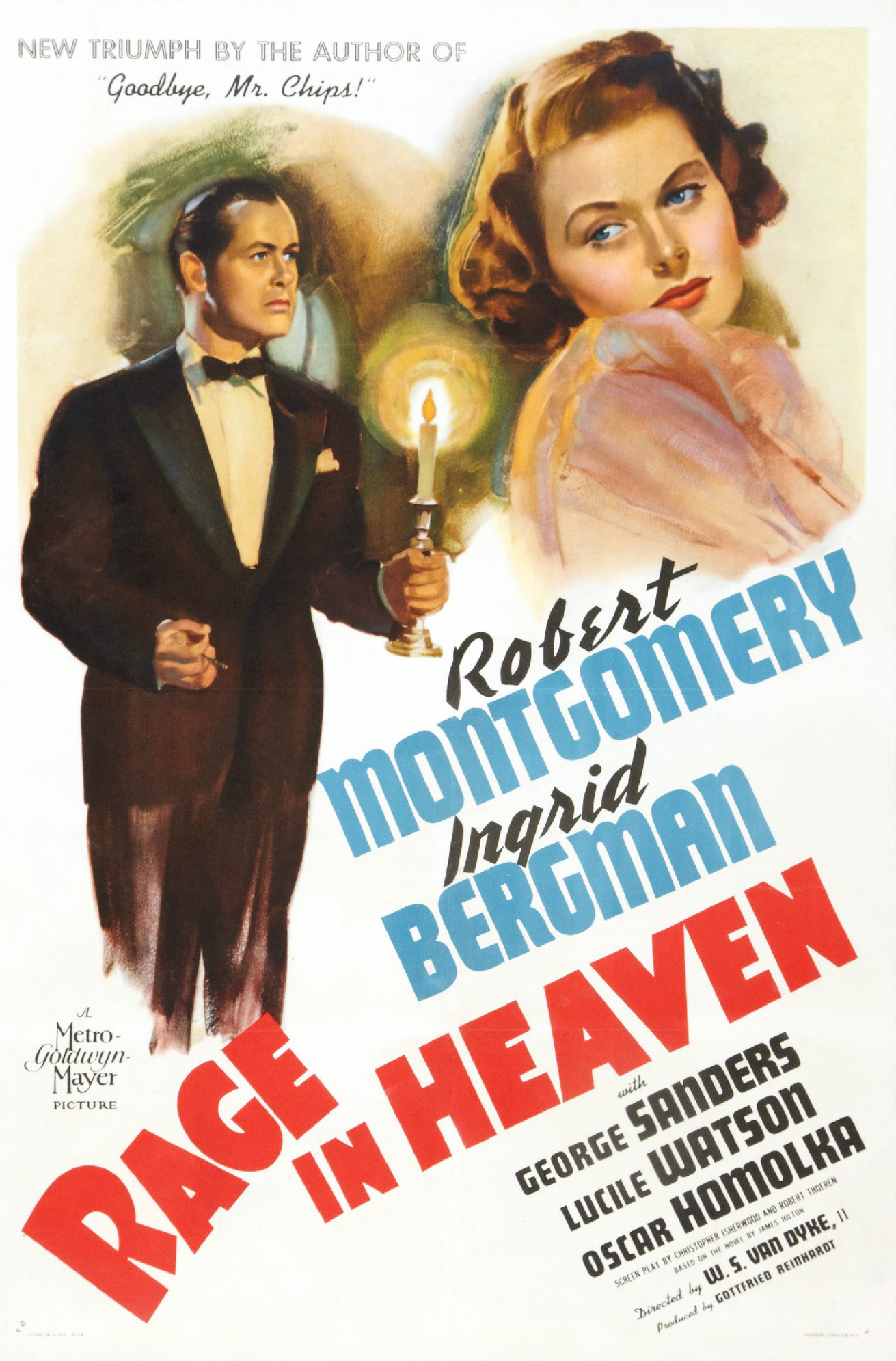 Poster for the 1941 film Rage in Heaven. There are no copyright marks. At bottom left is "D" (poster version "D"), Litho in USA #3743. At bottom right is Tooker Litho Co. NY-they printed the poster.